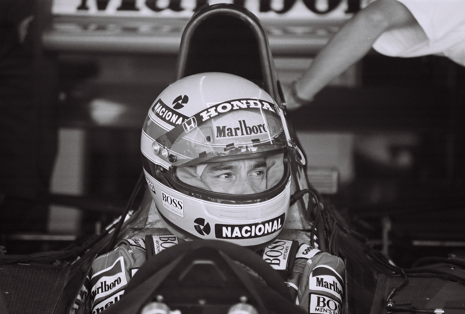 Ayrton Senna (McLaren) at the United States Grand Prix in 1991.